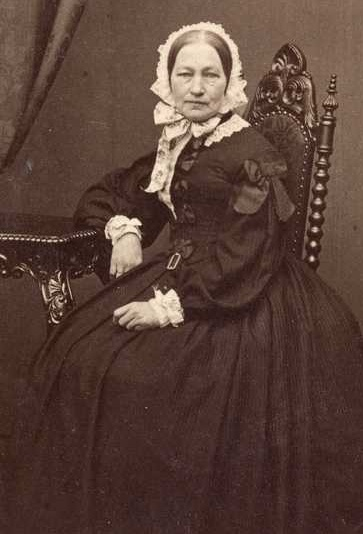 Henriette Seyler (born 1805 in Hamburg, died 1875 in Christiania, Norway), wife of Norwegian industrialist Benjamin Wegner. Daughter of Hamburg banker Ludwig Erdwin Seyler.